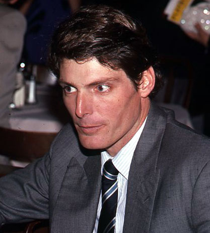 Photo to Christopher Reeve being interviewed at cast party after opening night of Marriage of FIgaro at The Circle in the Square Theatre in NYC